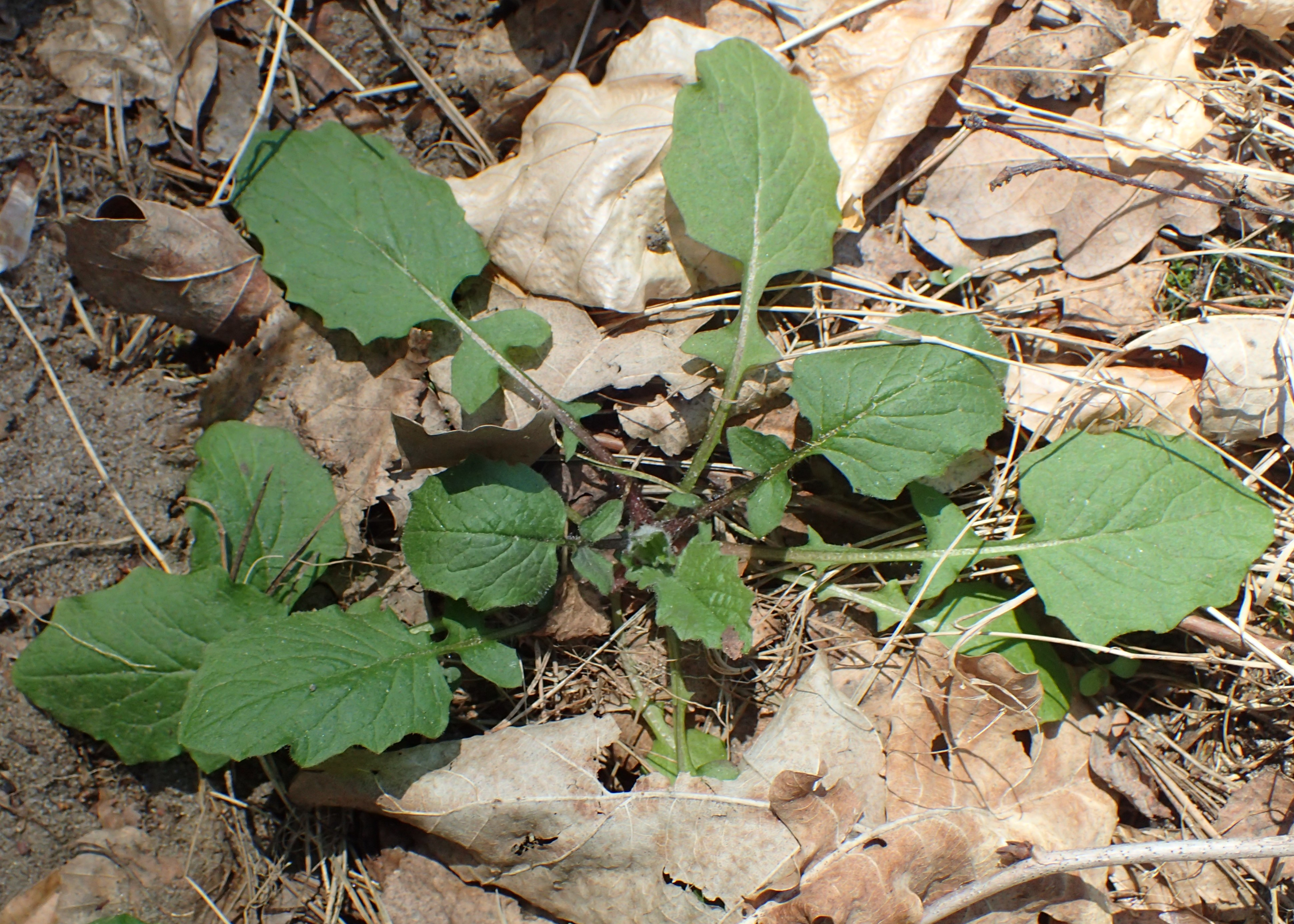 Lapsana communis in Krzywice near Nowogard, NW Poland